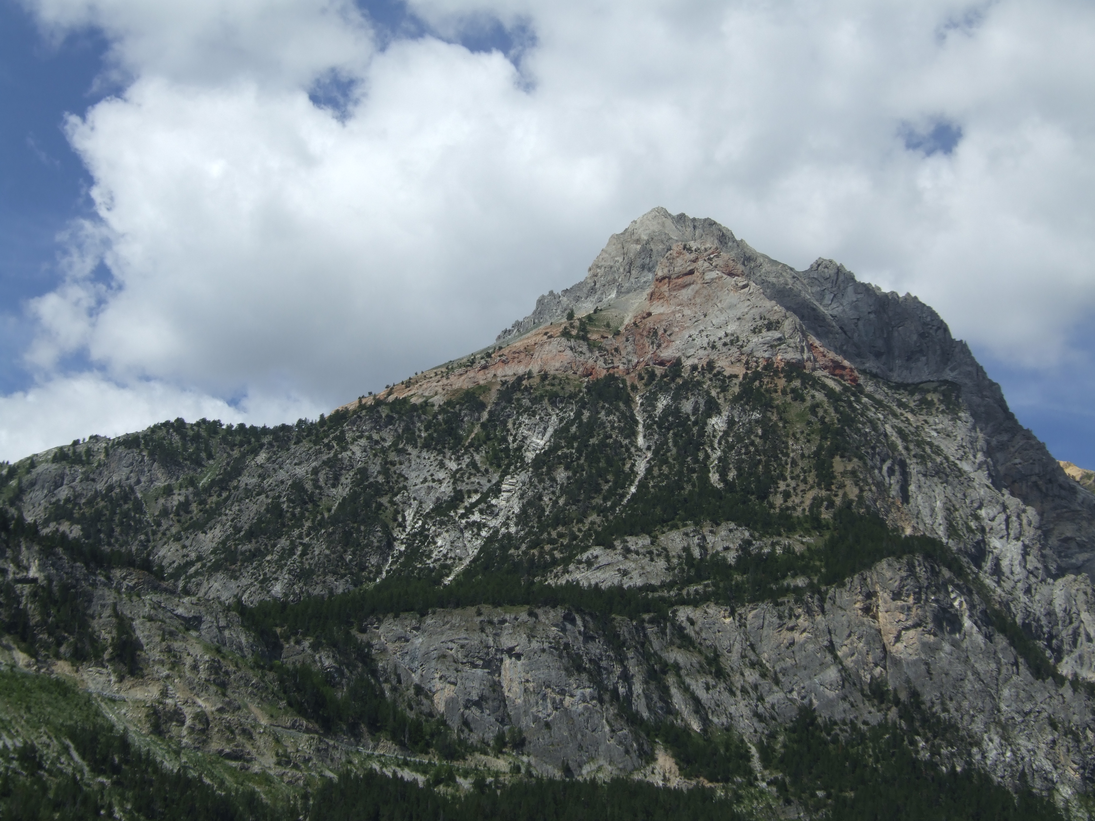 The Guglia Rossa mountain which dominate the Scala Pass between western Italy and France